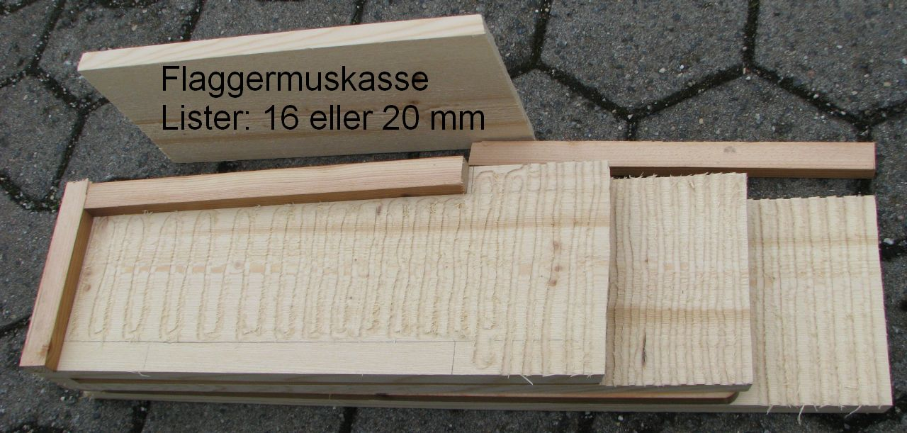 Bat box construction